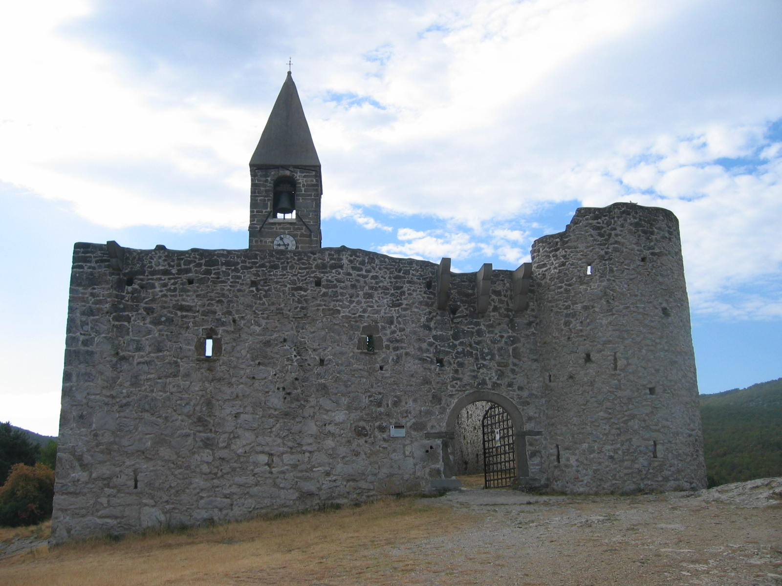 Church of Holy Trinity in Hrastovlje, Slovenia (dance macabre - painting site). Photo:Ziga 14:26, 1 August 2006 (UTC)